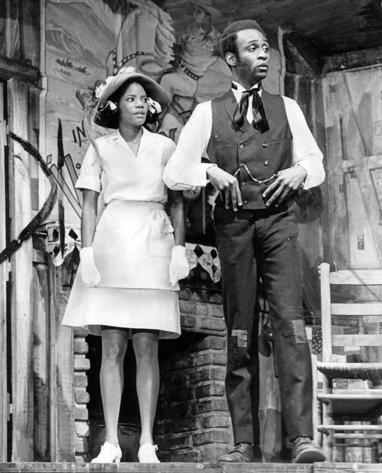 Melba Moore and Cleavon Little from the Broadway musical Purlie.